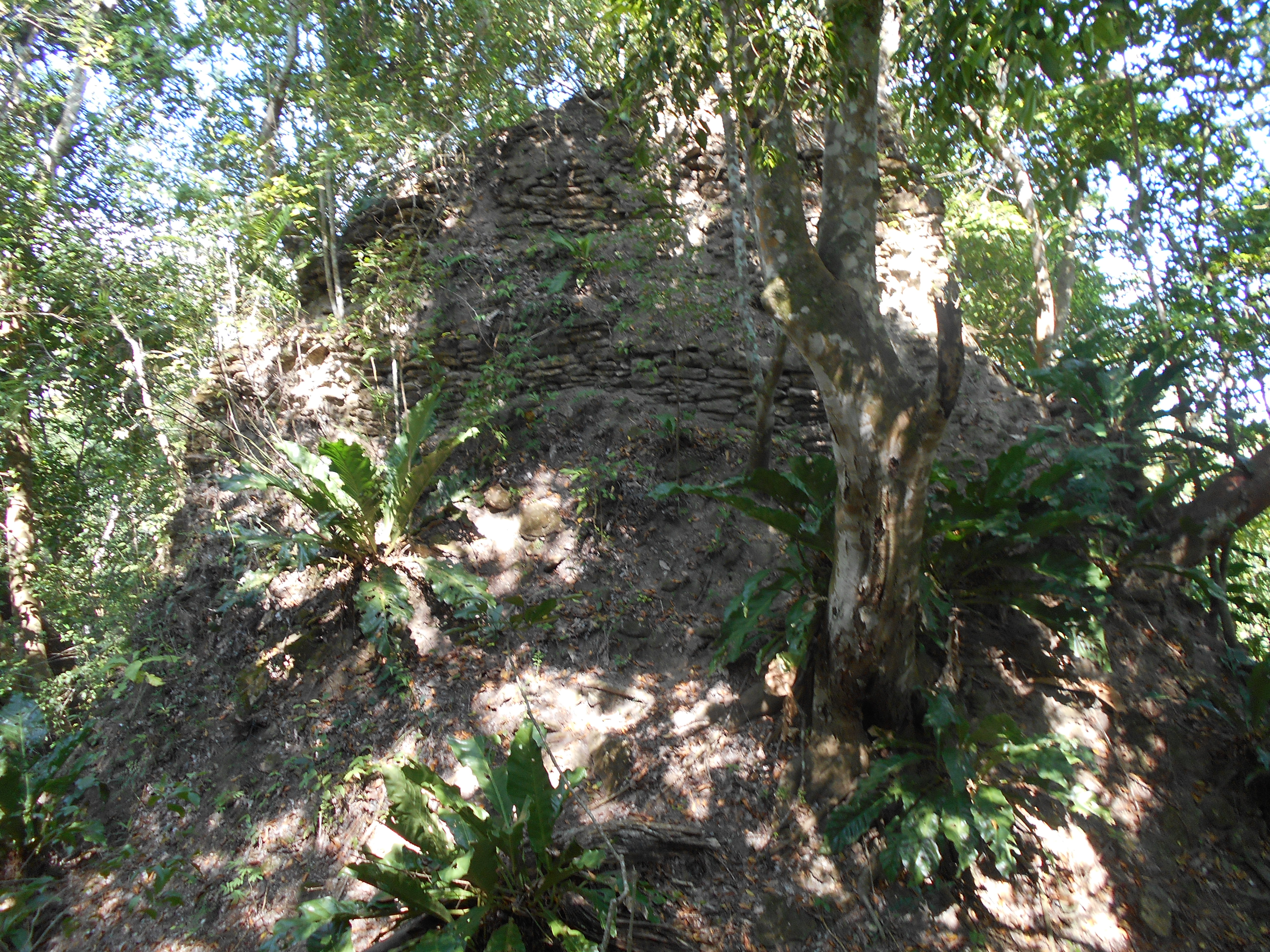 Late Classic Maya ruins of Motul de San José, Petén, Guatemala. South side of the north pyramid of the Twin Temples, Group C.